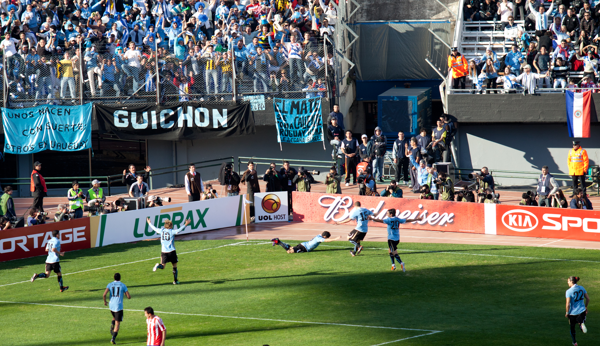 Luis Suarez and fellow uruguayan players celebrate the first scored goal in the 2011 Copa America final against Paraguay in the Estadio Monumental of Buenos Aires.